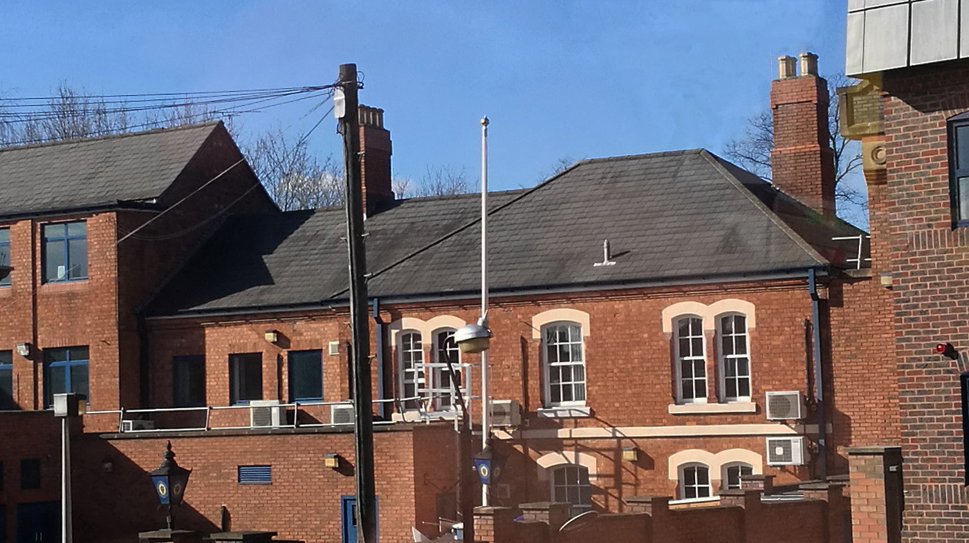 Seen in the corner to the right of Kings Heath Library is Kings Heath Police Station. Seen from the top deck of the no 50 bus. West Midlands Police